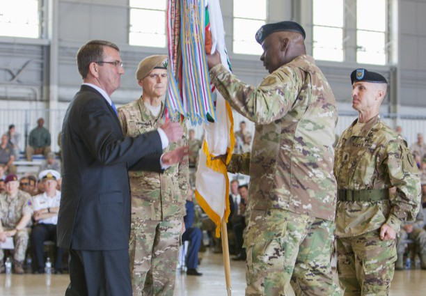 Defense Secretary Ash Carter receives the U.S. Central Command guidon as U.S. Army Gen. Lloyd J. Austin III relinquishes command to U.S. Army Gen. Joseph L. Votel. Carter officiated the change of command ceremony, which attracted more than 1,000 attendees, including Chairman of the Joint Chiefs of Staff U.S. Marine Gen. Joseph F. Dunford, Central Command's component commanders, community leaders and senior coalition representatives.